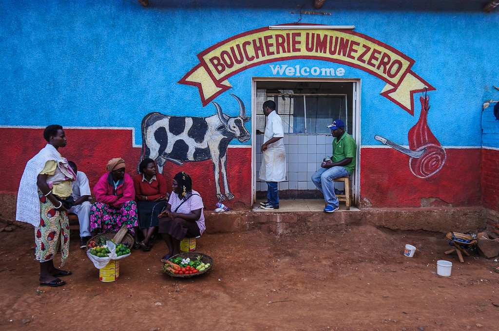 Butcher shop in Kigali, Rwanda This is an image of food from Rwanda